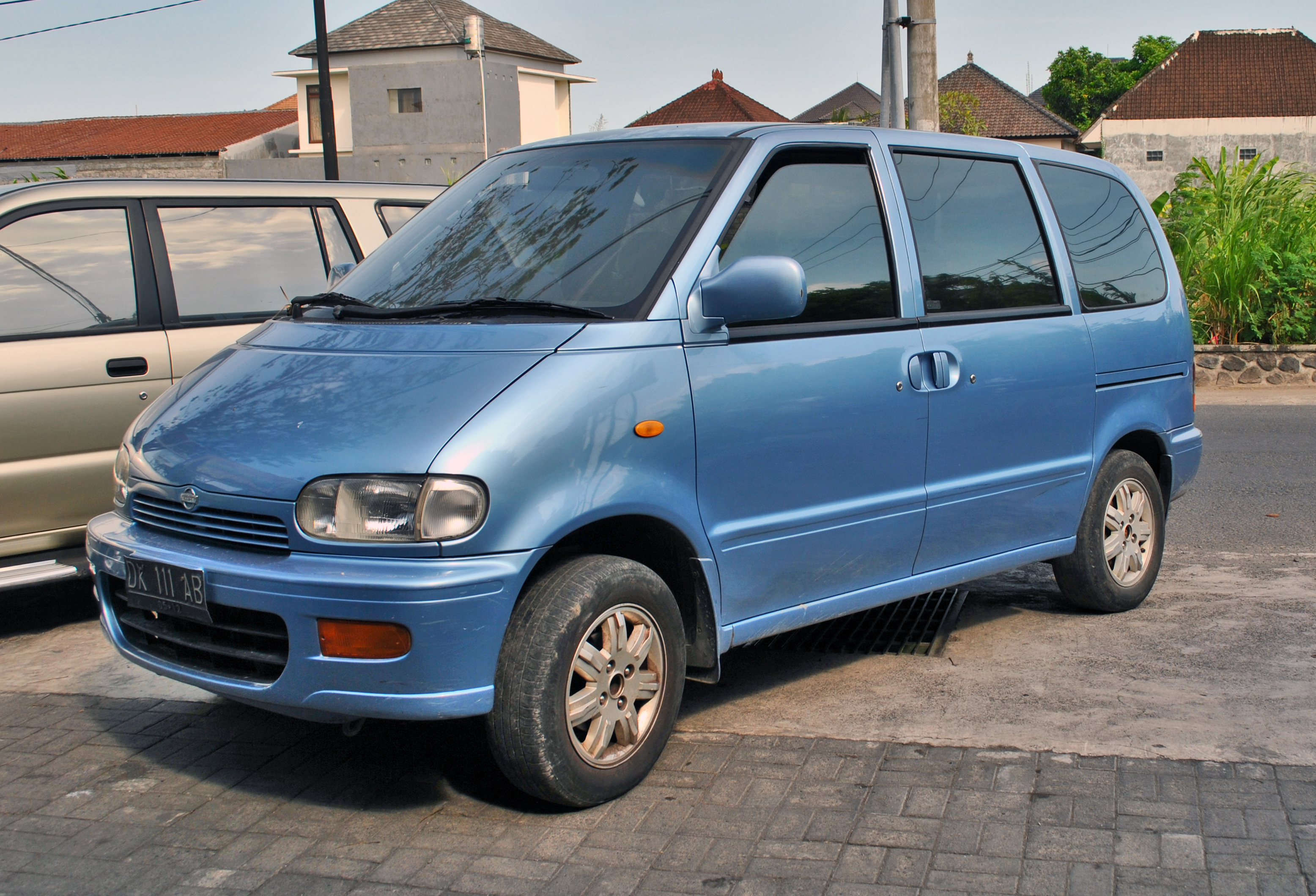 Front view of a first generation "snail" Nissan Serena 1.6i FGX in Denpasar, Bali, Indonesia.